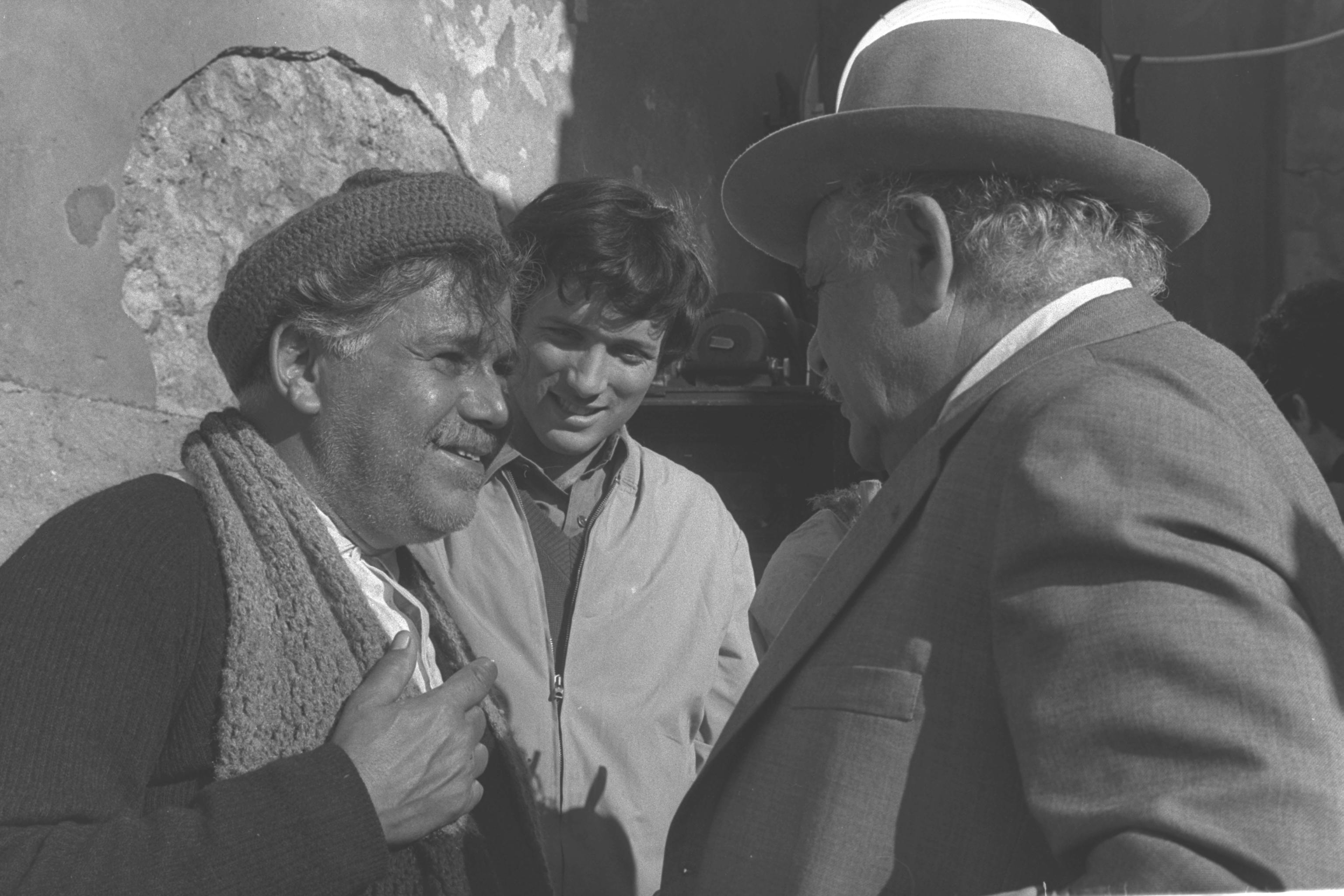 Akim Tamiroff with Israeli actor Ceasar Sovry and Assi Dayan (center) on location in Old Jaffa during the shooting of the Israel-French co-production of “The Death of a Jew.”